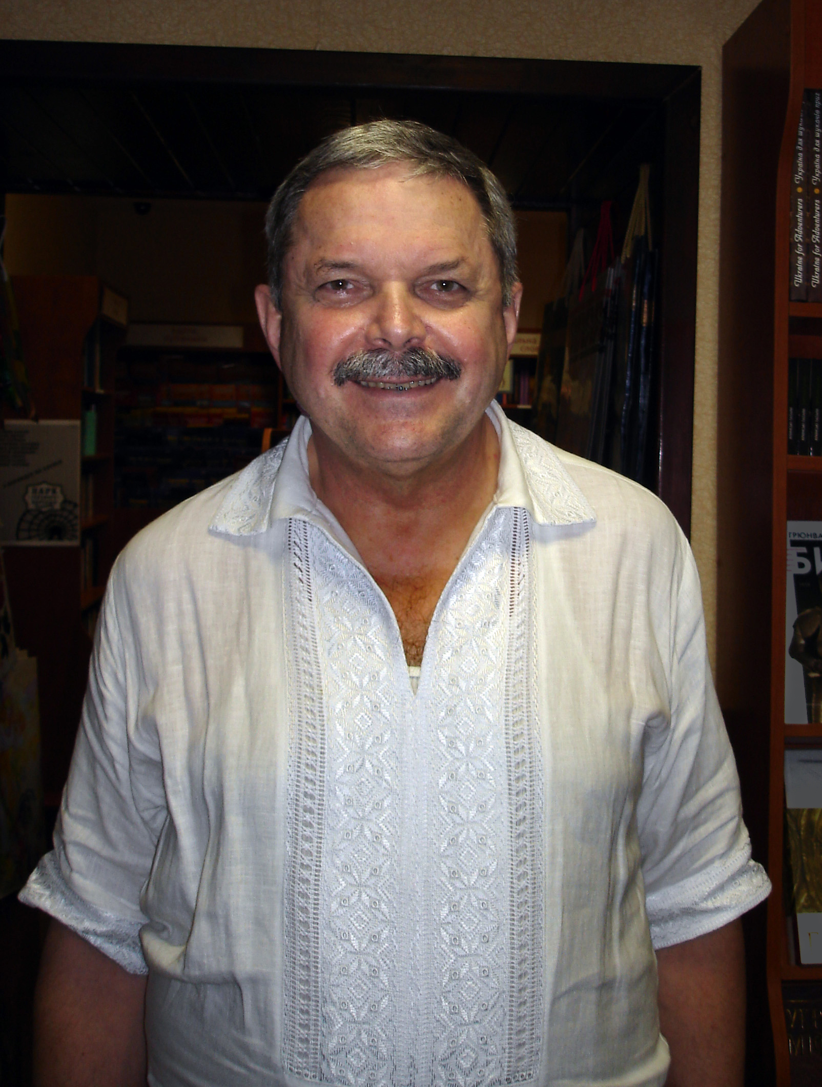 Myroslav Marynovych in Kharkiv. 15.05.2013.